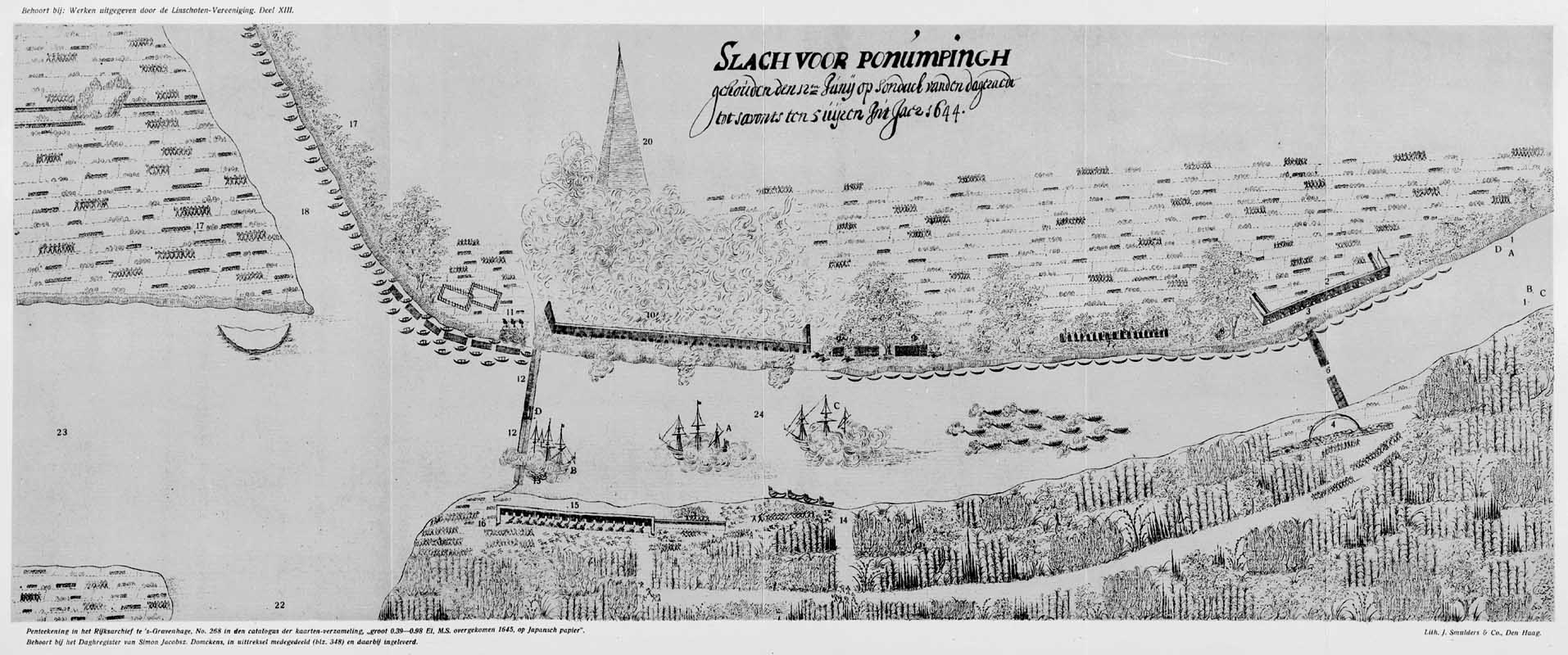 3 VOC-ships, Kievith, Leeuwerick and Dolphijn, are fighting Cambodian troups in Phom Penh on June 12, 1644